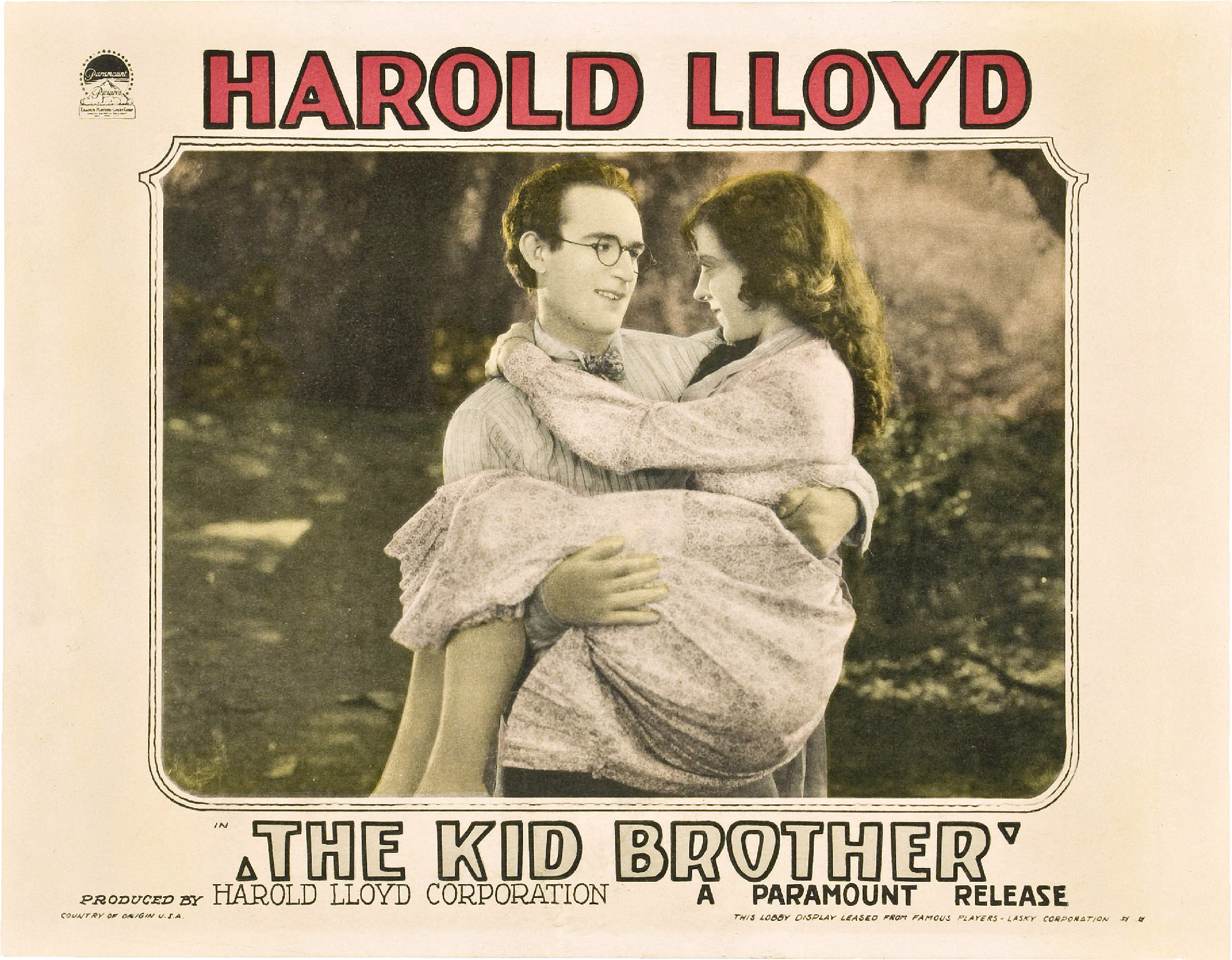 Lobby card from the American comedy film The Kid Brother (1927).